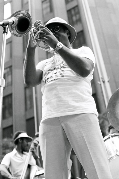 Clark Terry 52nd Street Jazz Fair, July 6, 1976 NYC